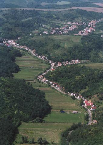 Aerial wiev of Bátaapáti, Tolna County, Hungary